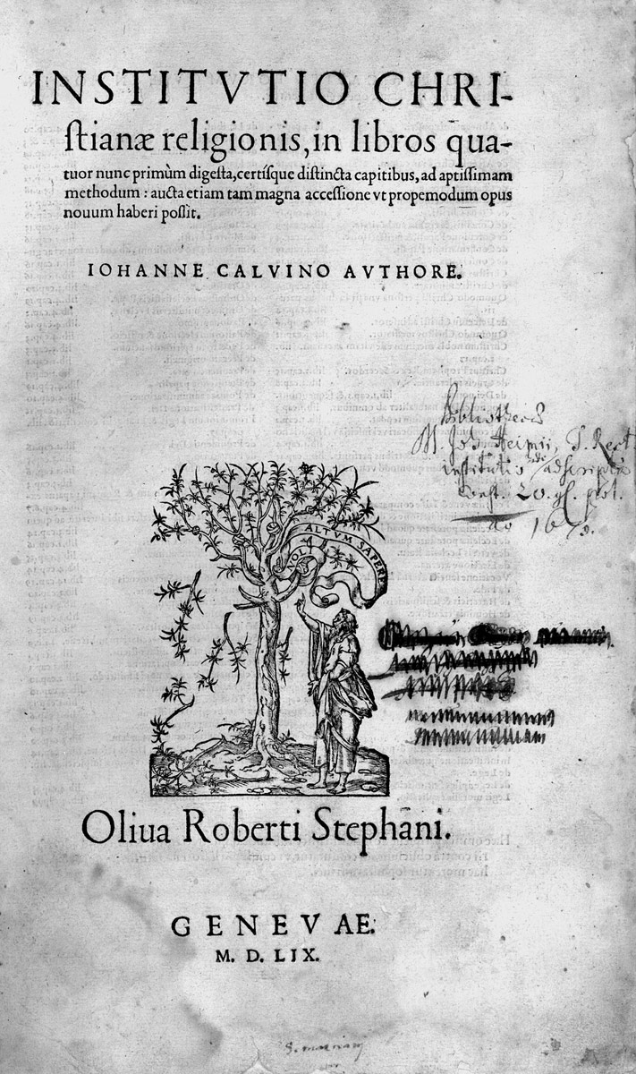 Jean Calvin: Institutio christianae religionis, in libros quatuor nunc primùm digesta ... aucta etiam tam magna accessione ut propemodum opus novum haberi possit, Ausgabe letzter Hand. Genève : Robertus Stephanus, 1559